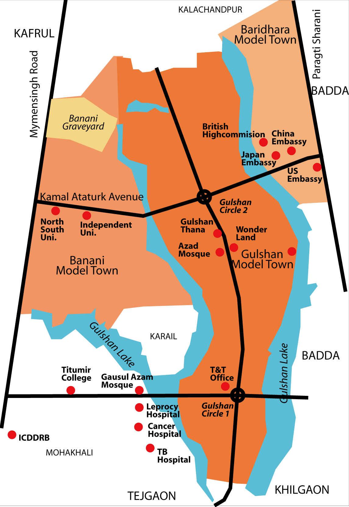 Gulshan police station map